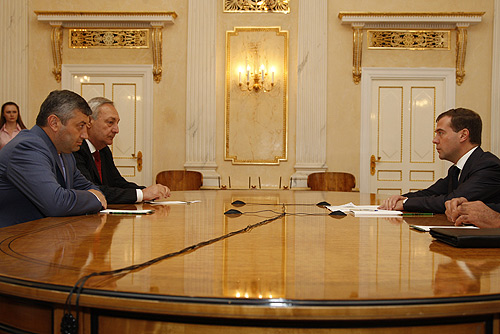 THE KREMLIN, MOSCOW. With President of South Ossetia Eduard Kokoity and President of Abkhazia Sergei Bagapsh.